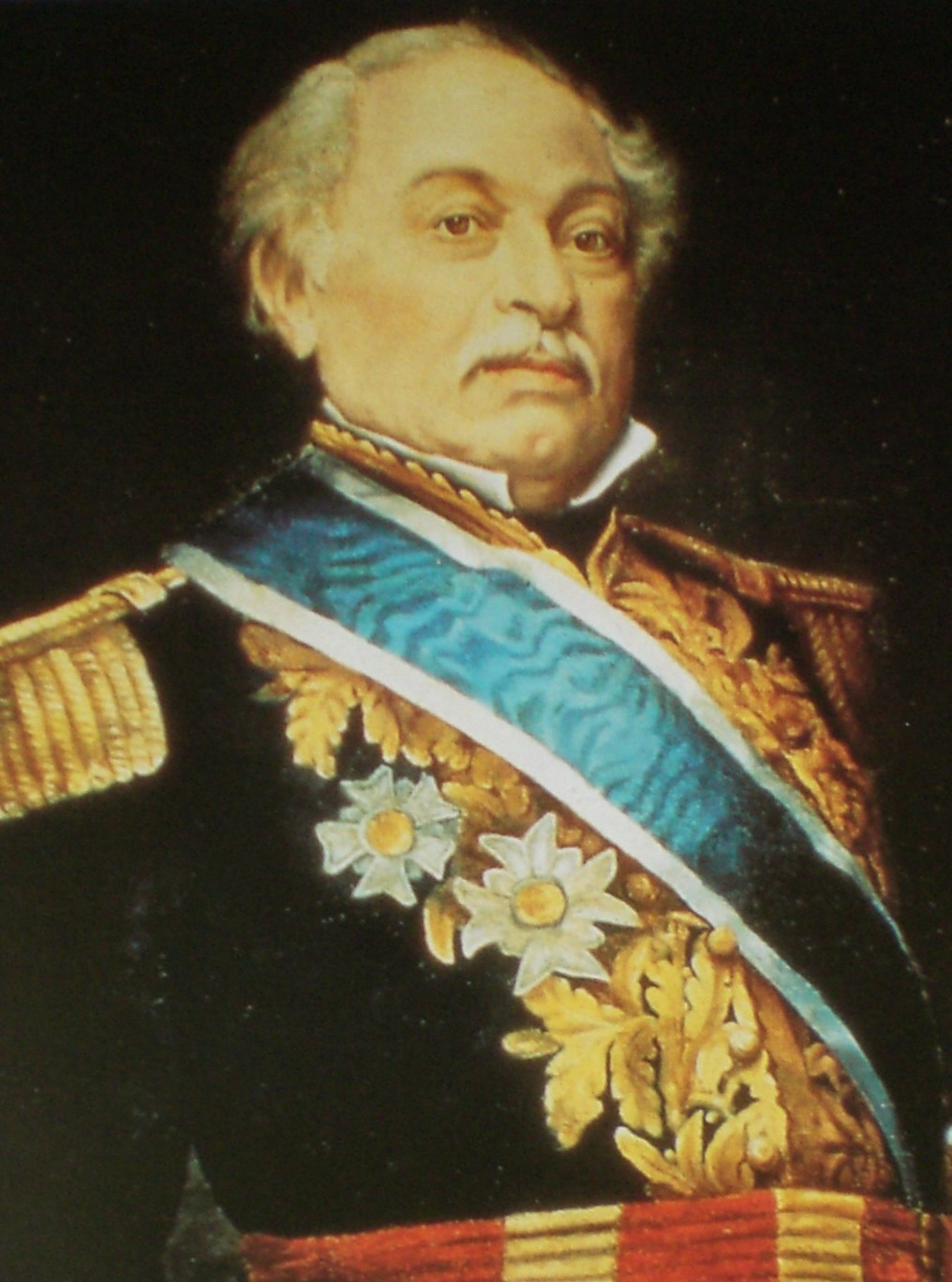 José Antonio Páez by Anonymous Artist.